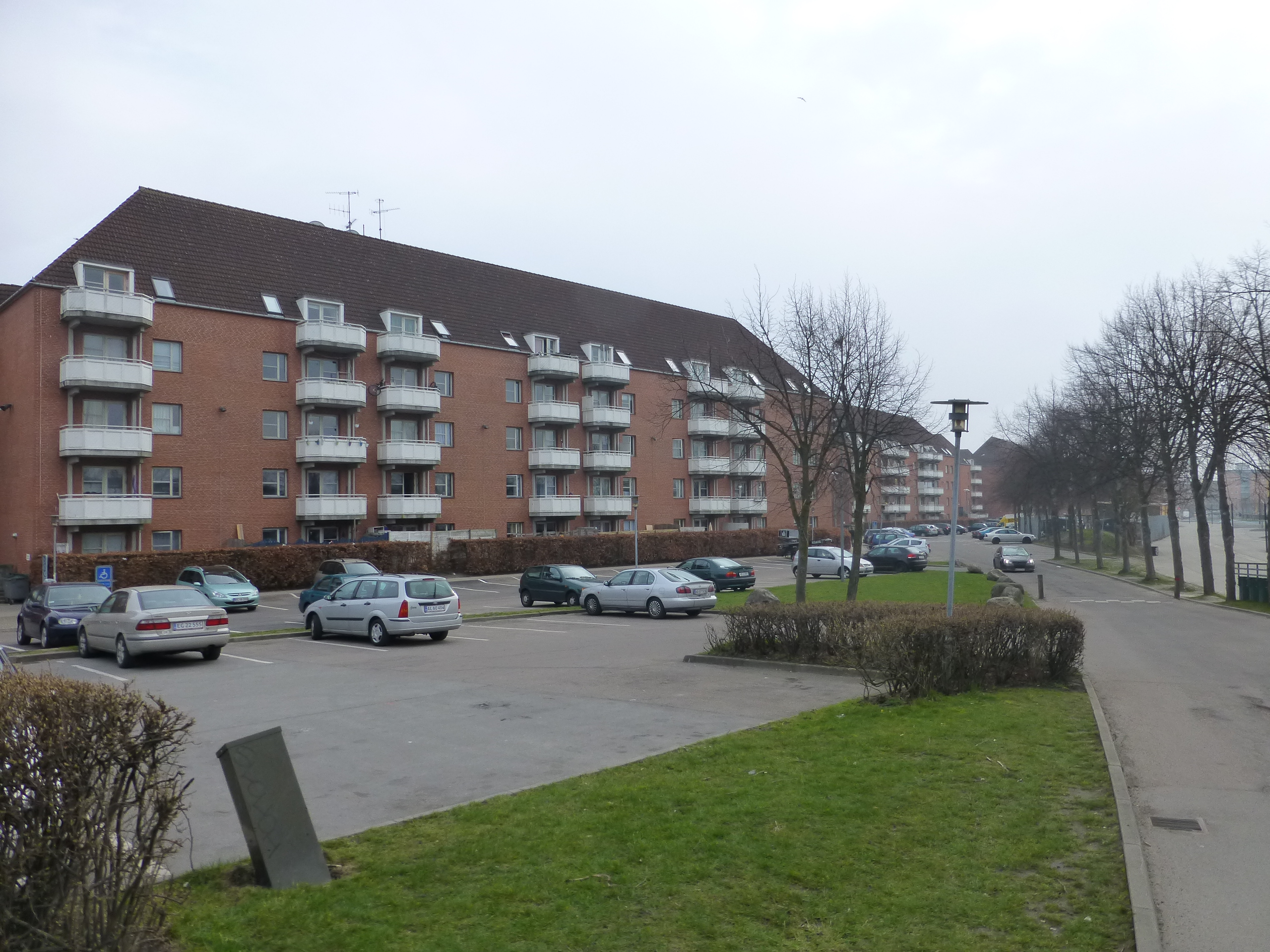 Mjølnerparken is a street and area in Nørrebro in Copenhagen.